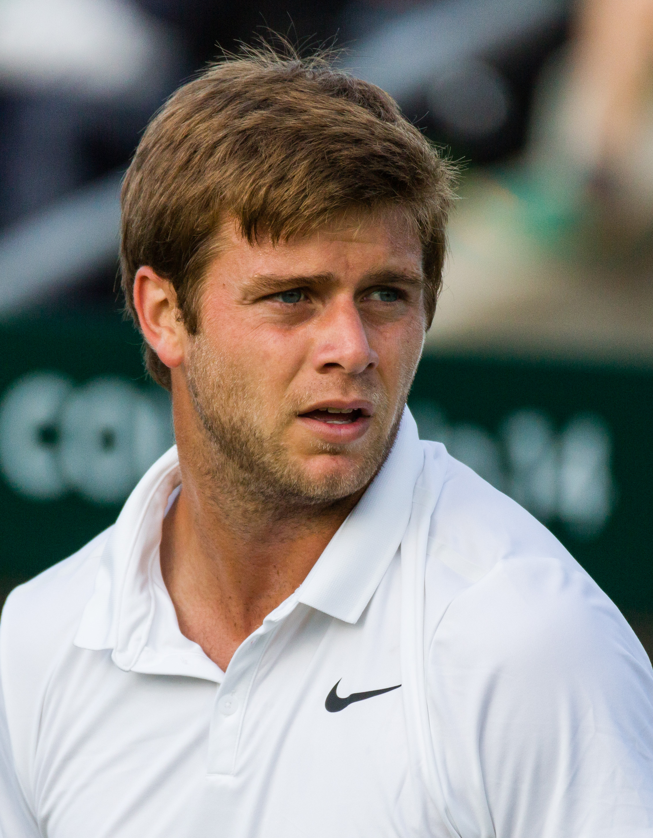 Ryan Harrison competing in the first round of the 2015 Wimbledon Qualifying Tournament at the Bank of England Sports Grounds in Roehampton, England. The winners of three rounds of competition qualify for the main draw of Wimbledon the following week.